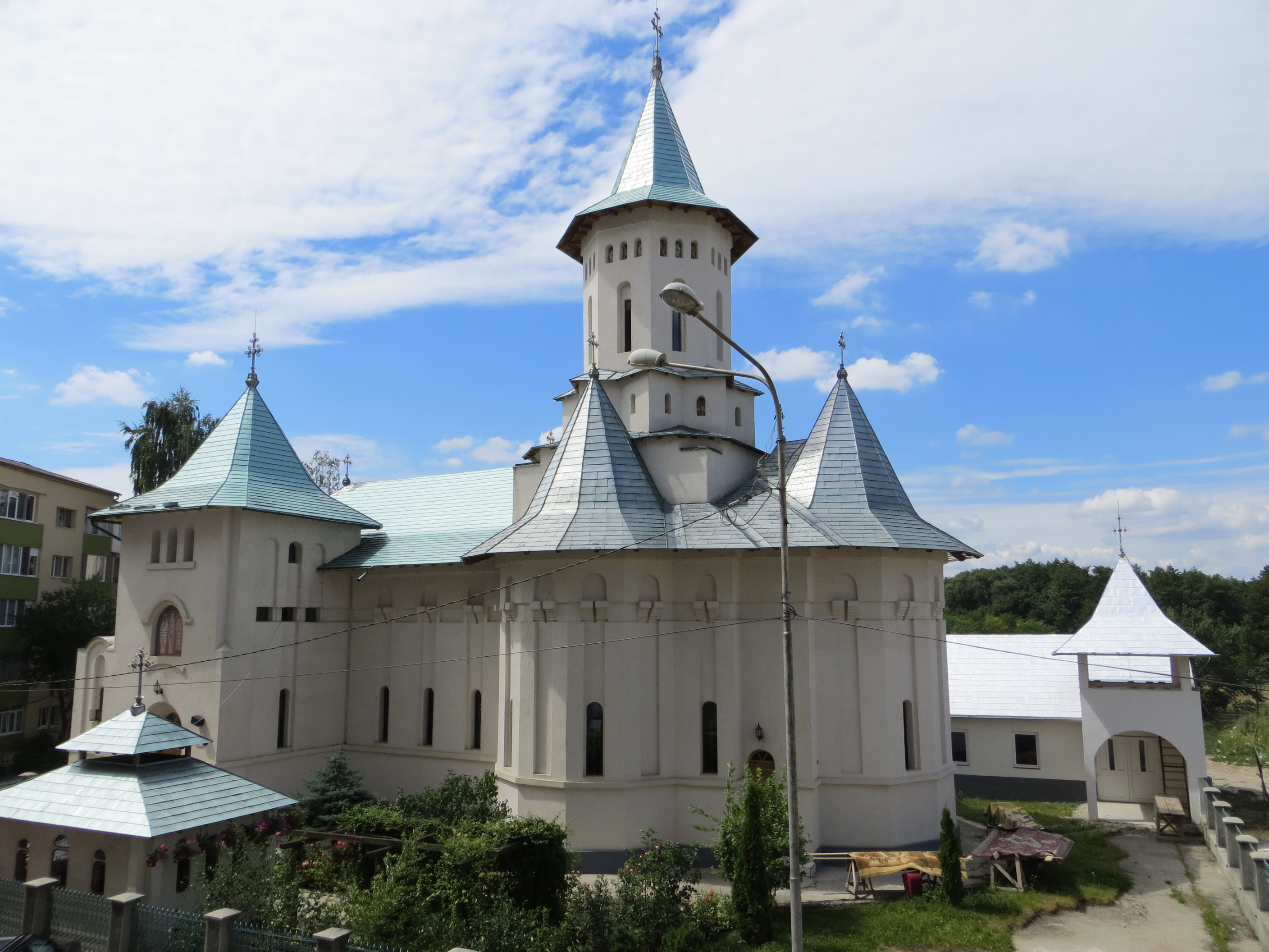 Church of the Three Hierarchs Basil, Gregory and John in Suceava.